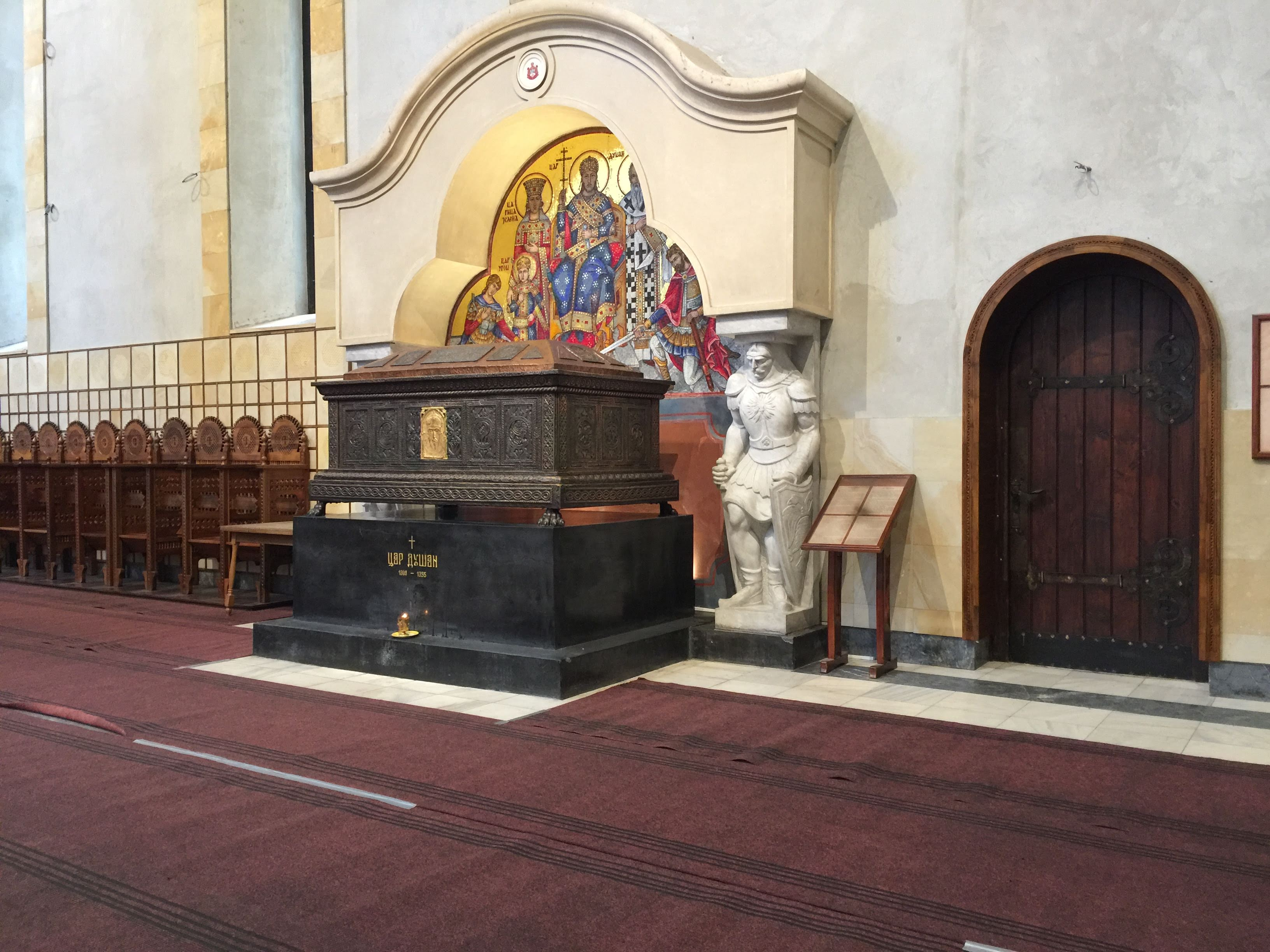 The tomb of emperor Stefan Uroš IV Dušan (Dušan the Mighty) in Saint Mark Church. Belgrade, Serbia